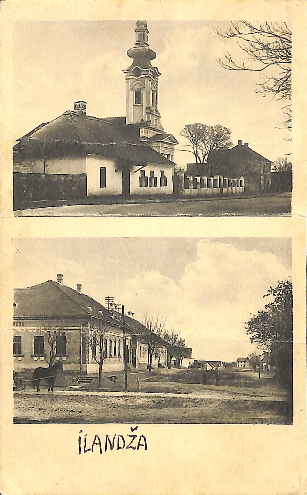 Ilandža on postcard